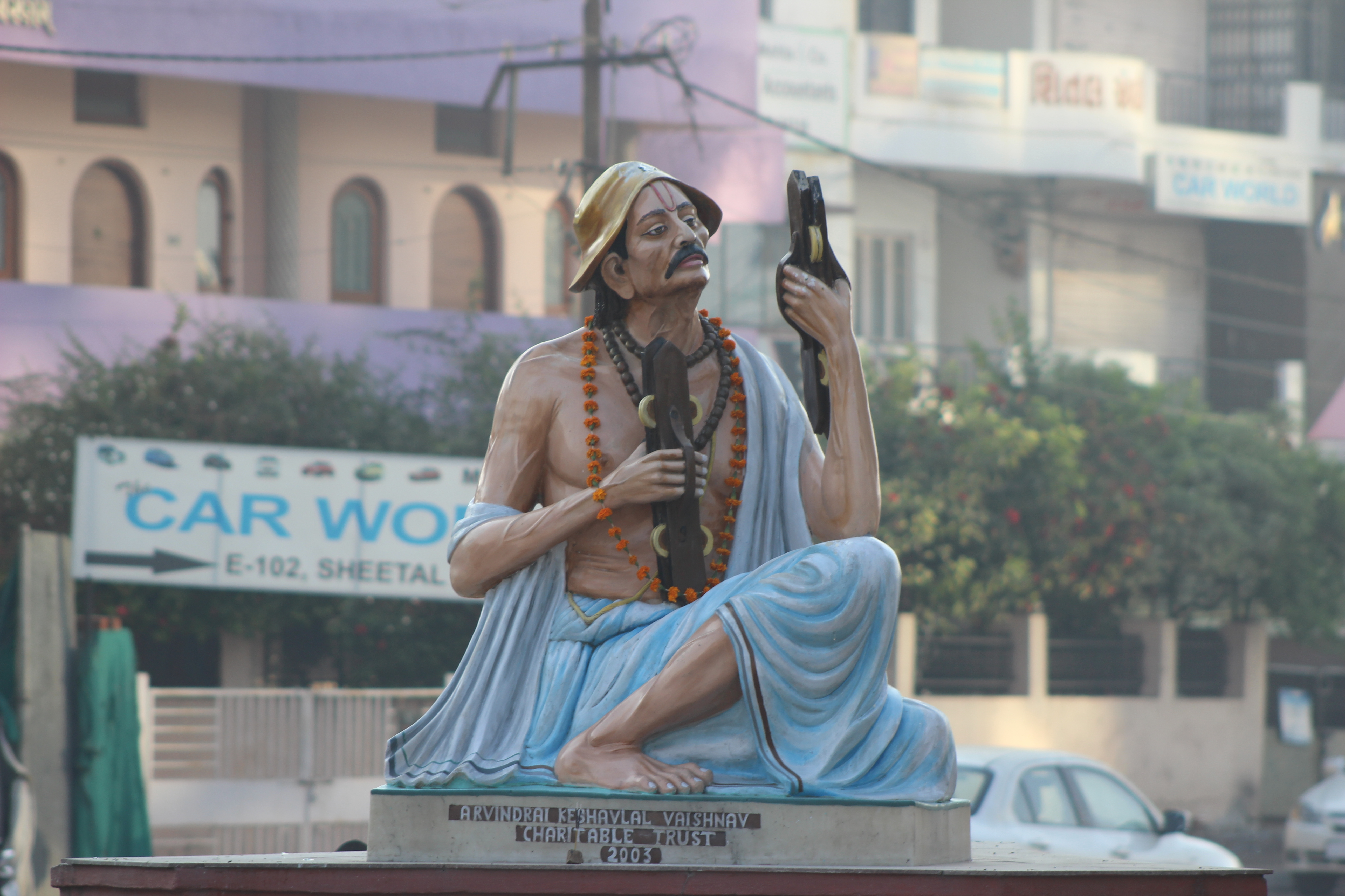 Narsinh Mehta ગુજરાતી: ભક્તકવિ નરસિંહ મહેતા